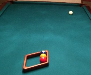 Racking up a game of three-ball, in straight line formation, using the diamond rack more commonly used for nine-ball, but at an angle so that its side is perfectly aligns the balls with the center diamonds on the head rail and foot rail. In this example, the 2 ball is on the foot spot. (This is the closer-up cropped version; for the more expansive-view version, see below.)